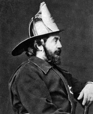 Guillermo Matta Goyenechea miembro parte de bomberos